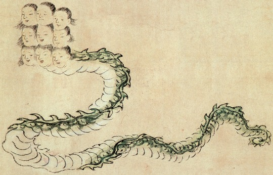 "Xiang-liu" (相柳, a legendary serpent in China) from the Kaiki-chōjū-zukan (怪奇鳥獣図巻, Japanese picture)